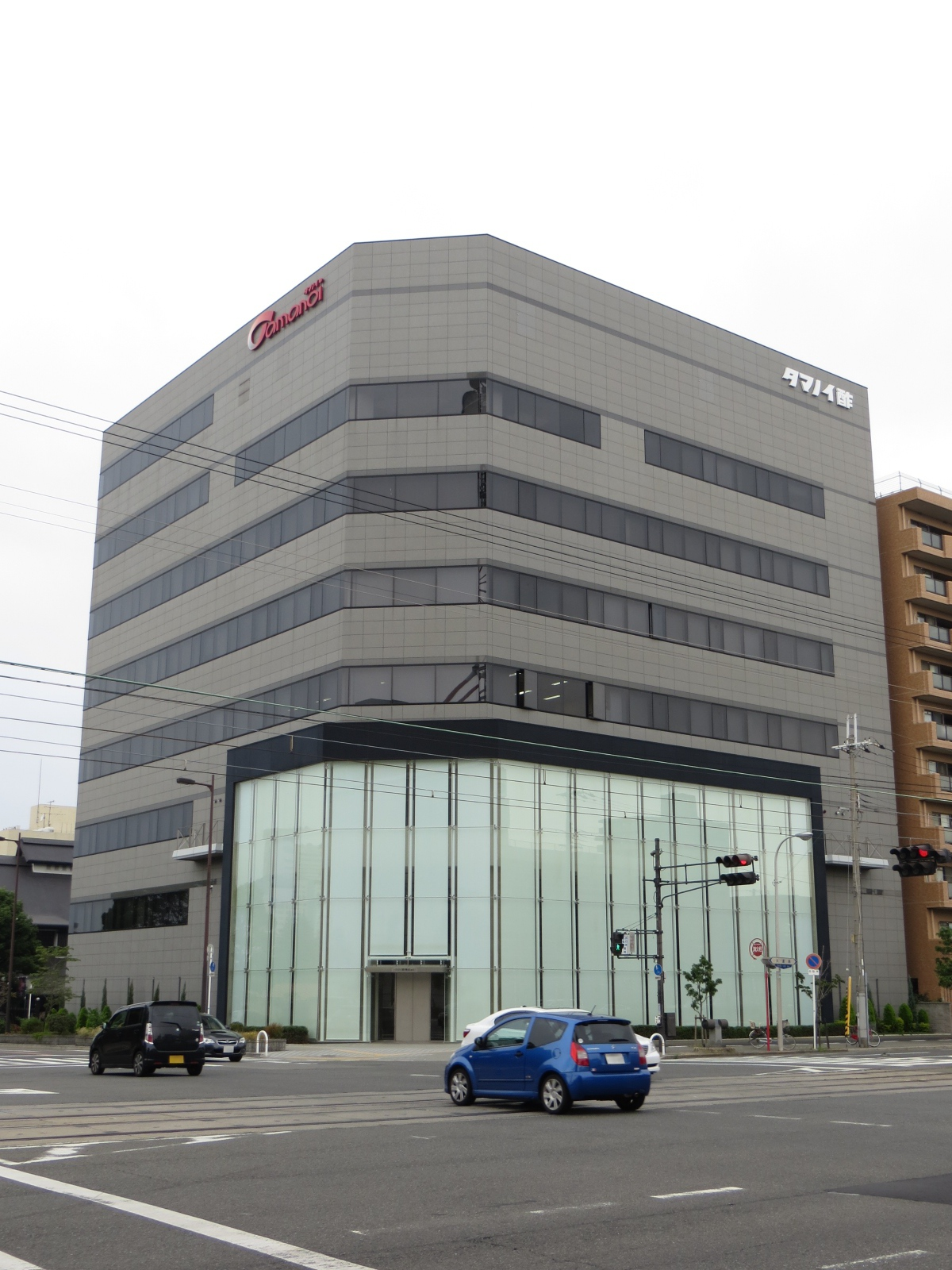 Headquarters of Tamanoi Vinegar Corporation., Sakai-ku, Sakai, Osaka.